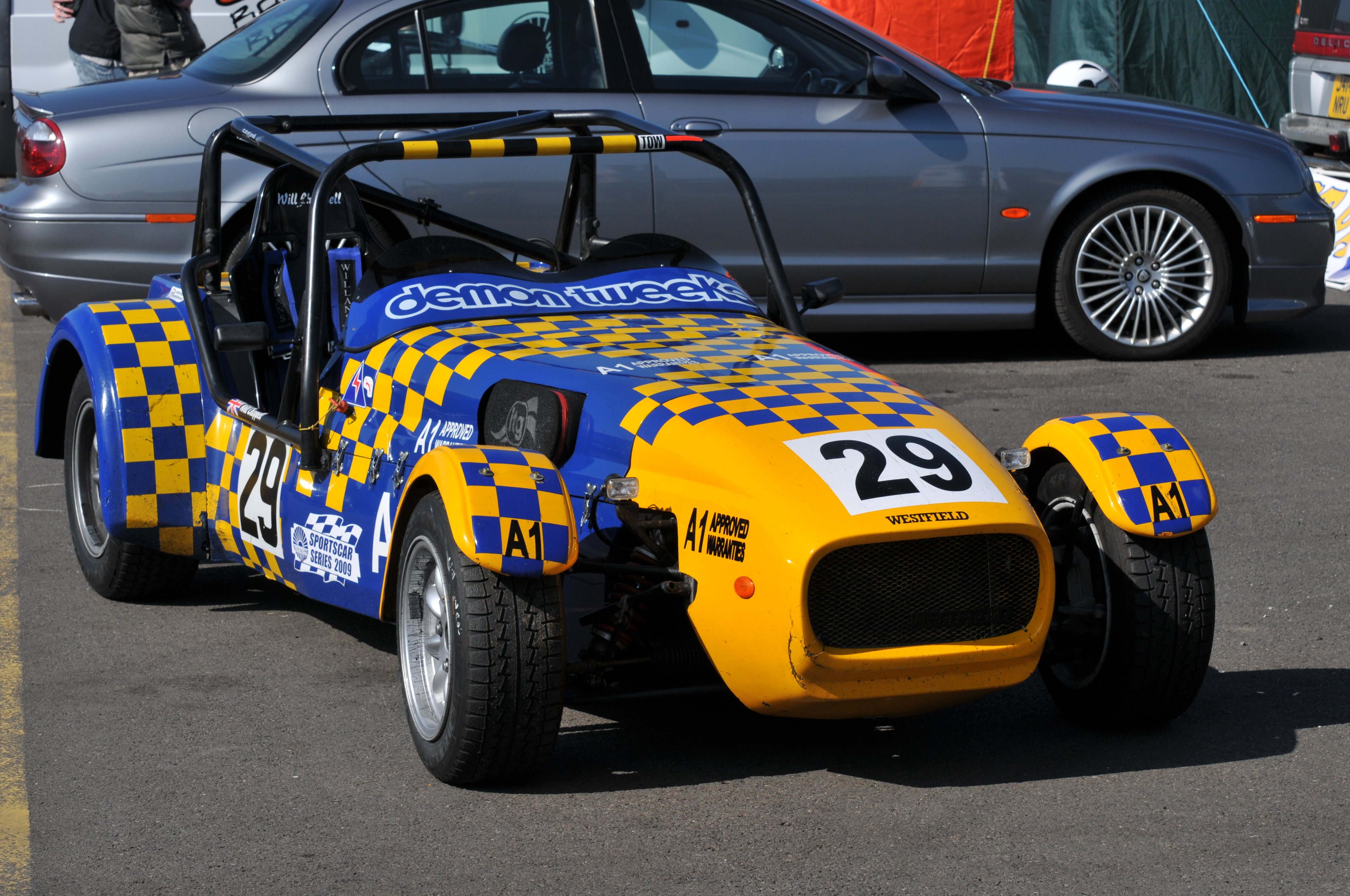 Photo of Demon Tweeks Westfield.